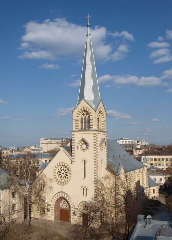 outside outlook